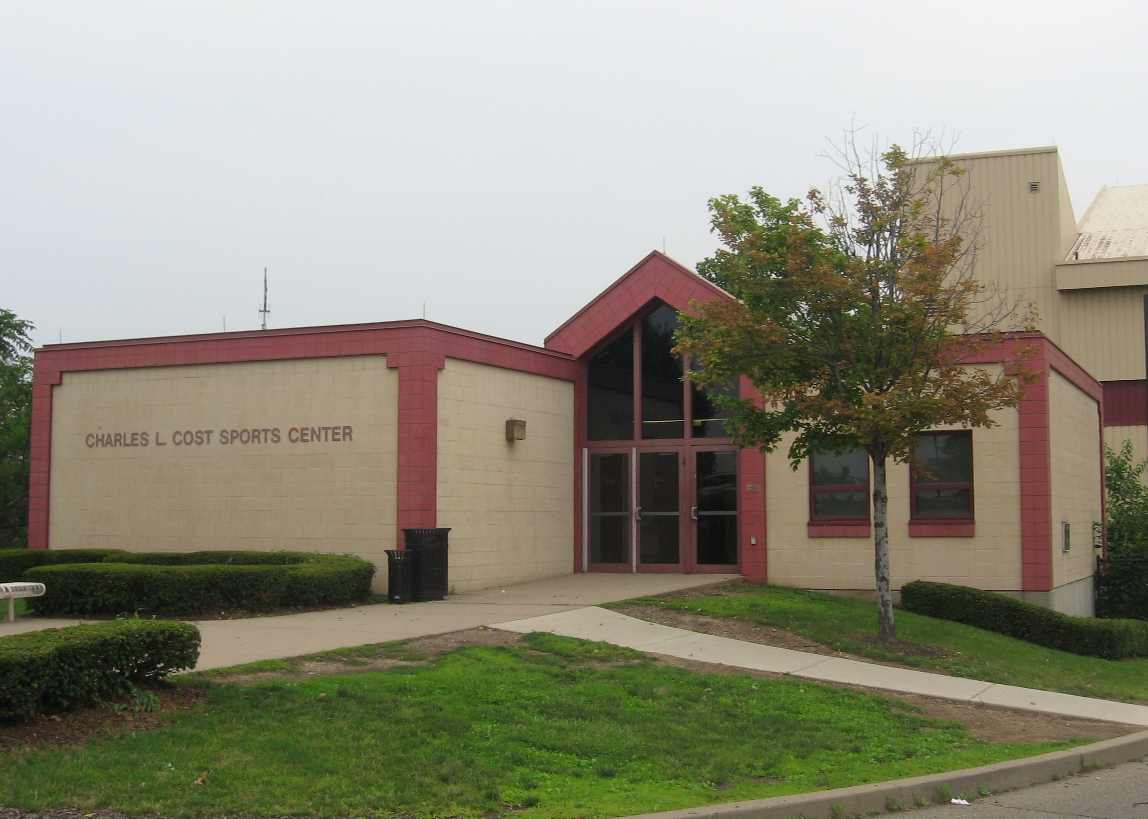 The Cost Sports Center at the University of Pittsburgh 40°26′46.3″N 79°57′53.3″W / 40.446194°N 79.964806°W